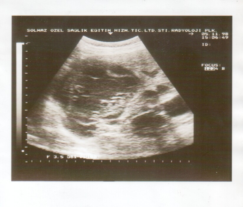 Ultrasound scan. Provided as-is. Please feel free to categorise, add description, crop or rename.